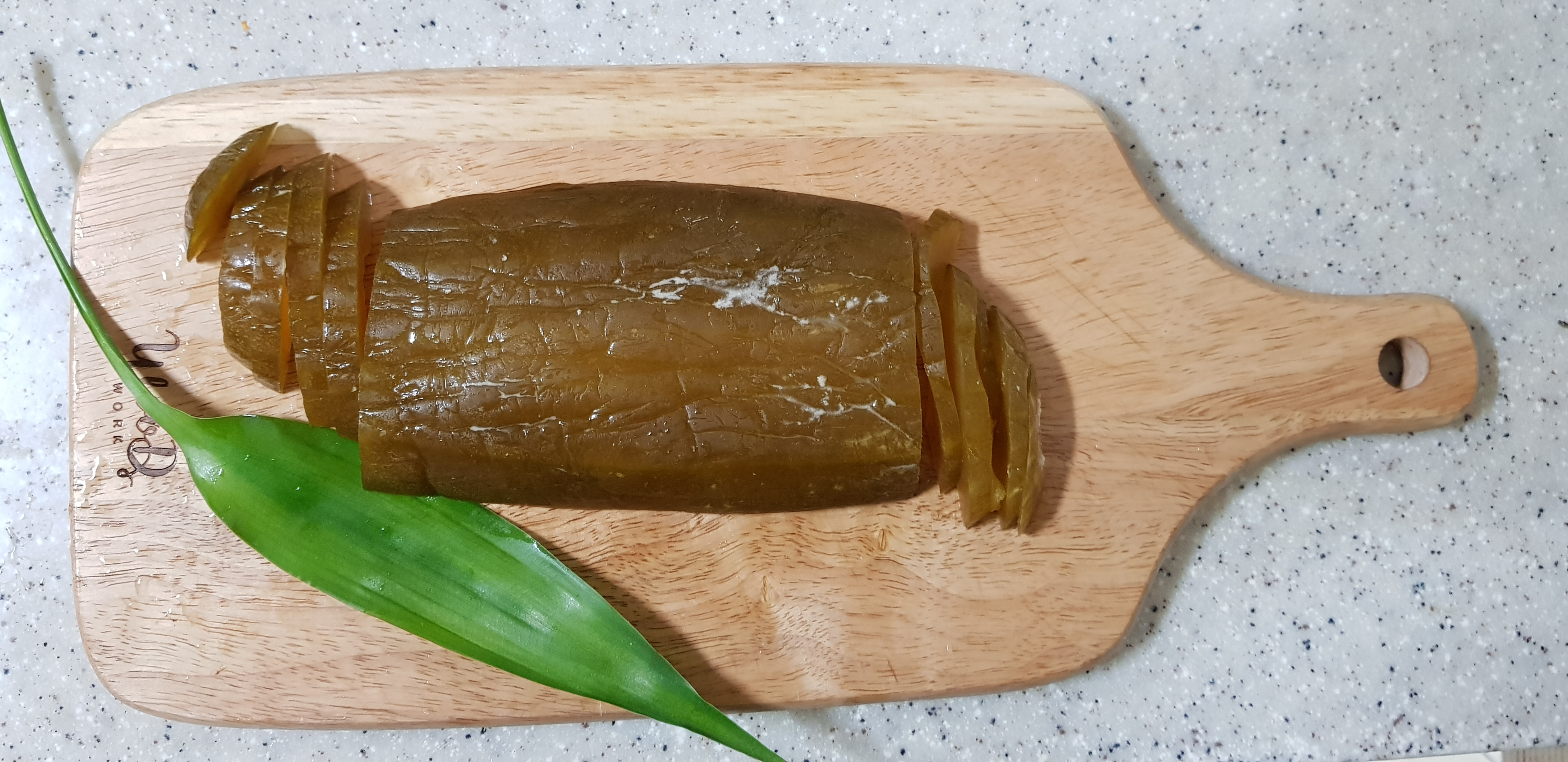 UlaeJangazi